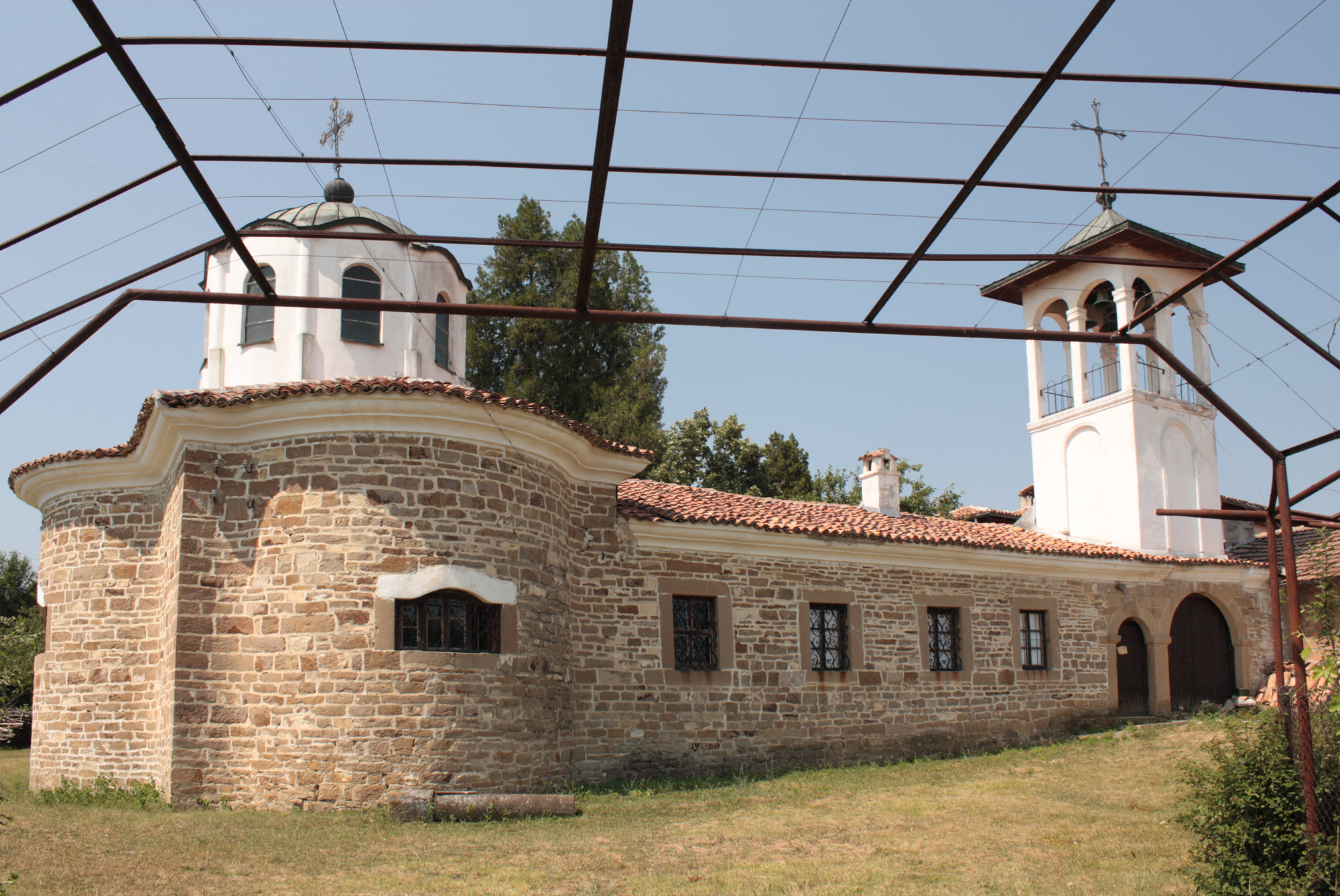 Merdanya Monastery St.Torty Martyrs